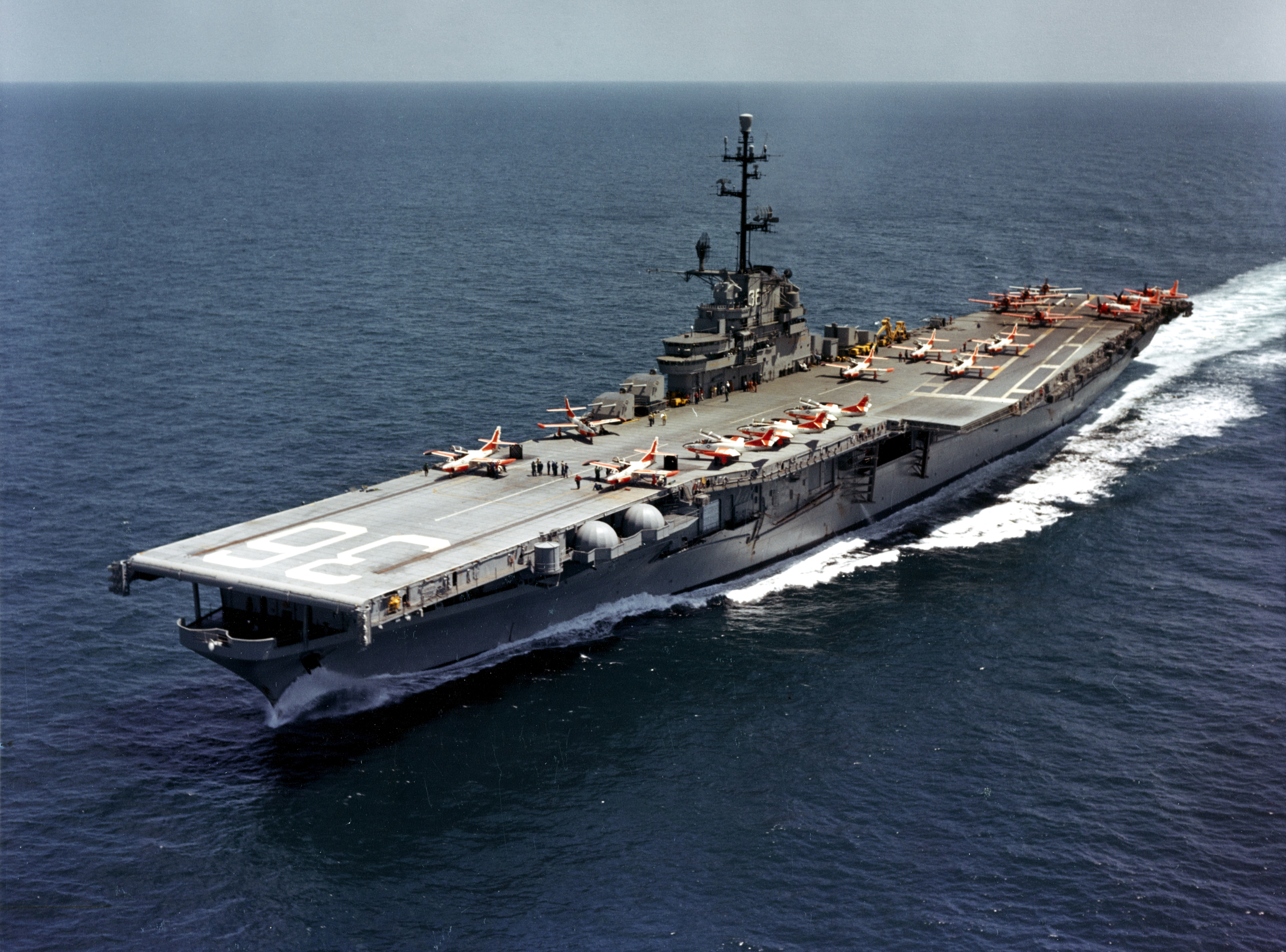 The U.S. Navy aircraft carrier USS Antietam (CVS-36) Operating training aircraft, 19 April 1961. Planes on deck include North American T2J-1 Buckeyes amidships and forward and Douglas AD Skyraiders parked aft. Note the dayglo paint on the aircraft and the mothballed 127 mm/38 guns in the carriers port side sponsons.